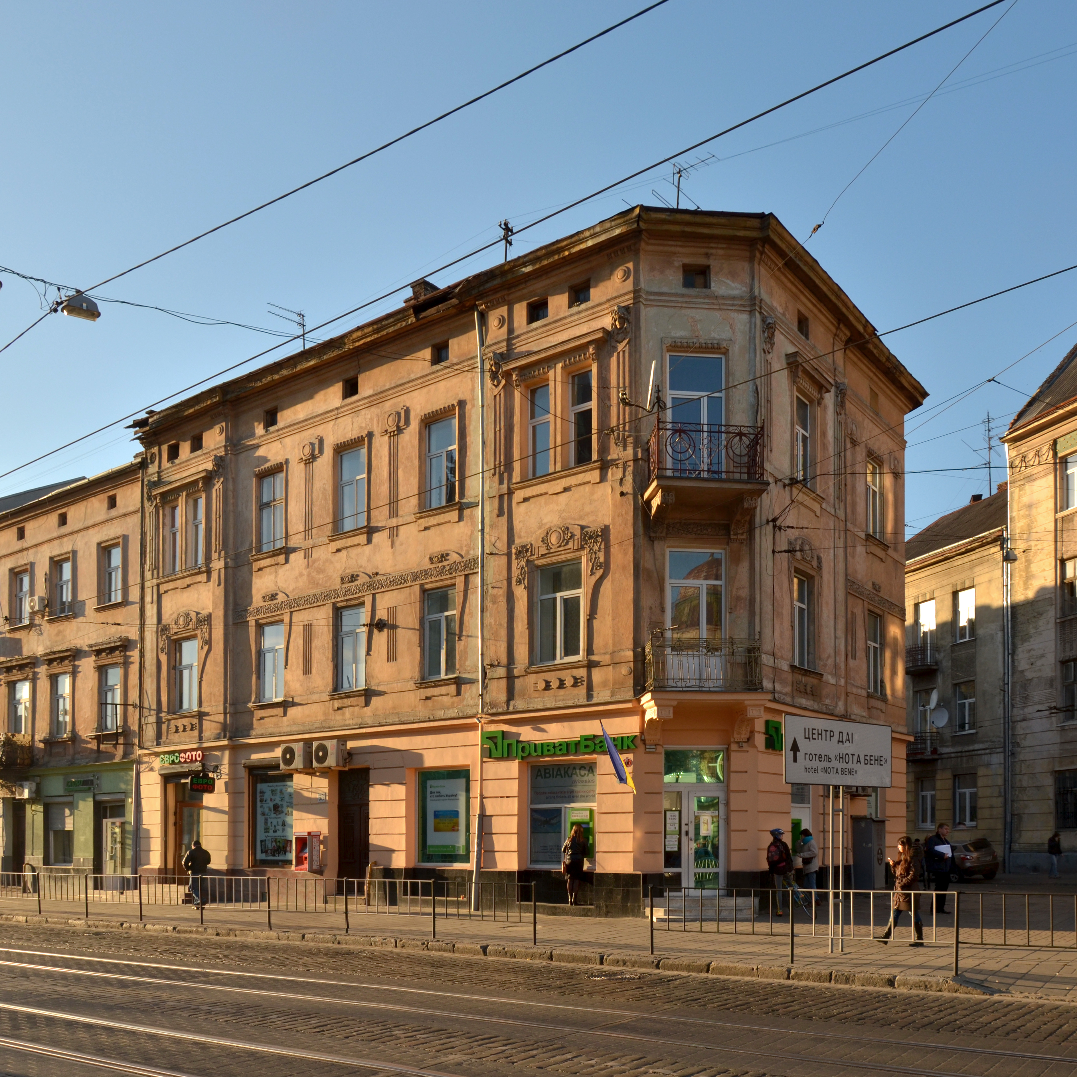 98 Horodotska Street, Lviv.